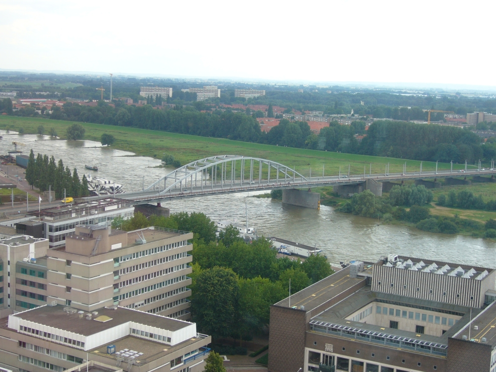 A Bridge Too Far - Arnhem, Netherlands (a view from the cathedral tower)